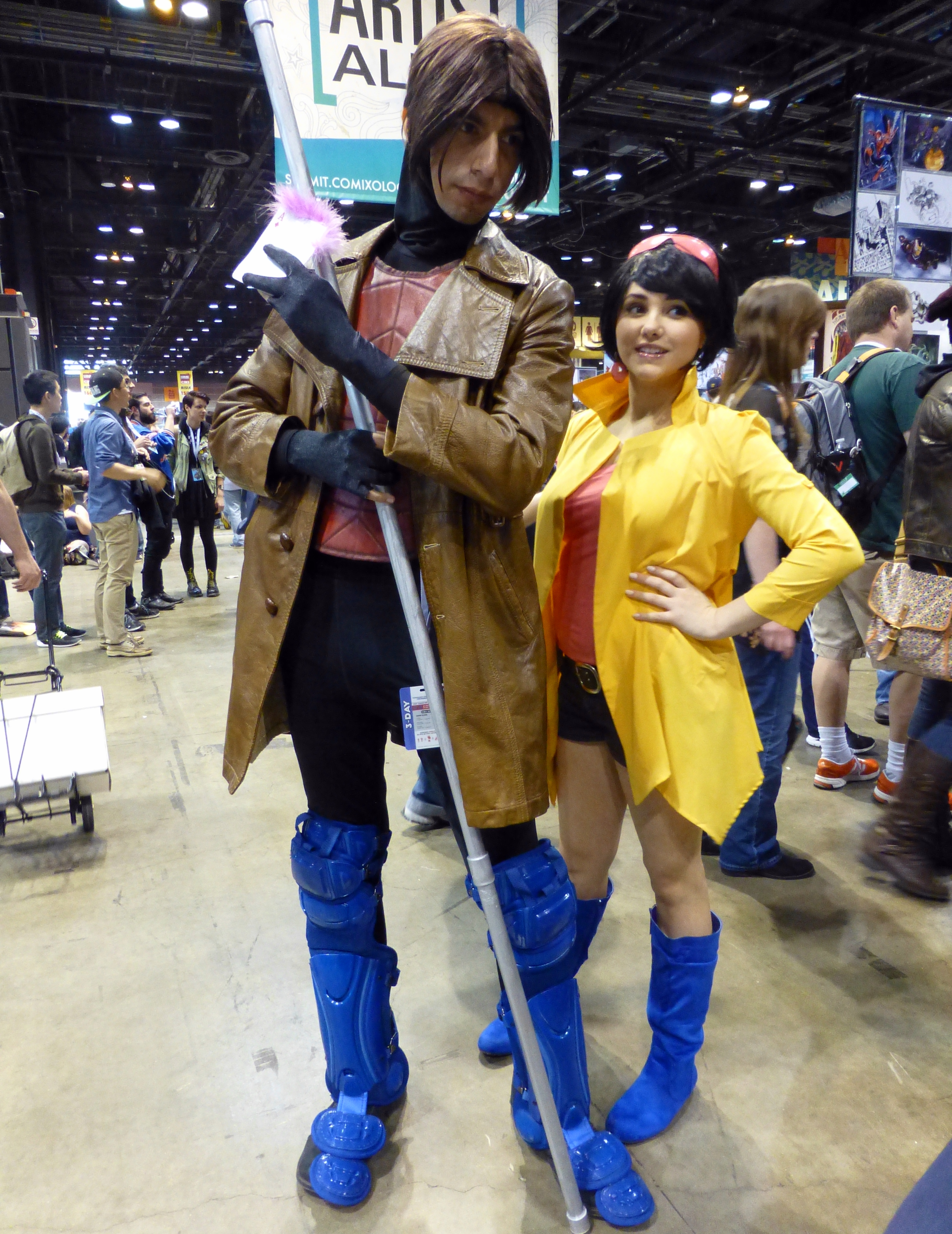 Gambit and Jubilee Cosplay at Chicago Comic & Entertainment Expo (C2E2) 2015.